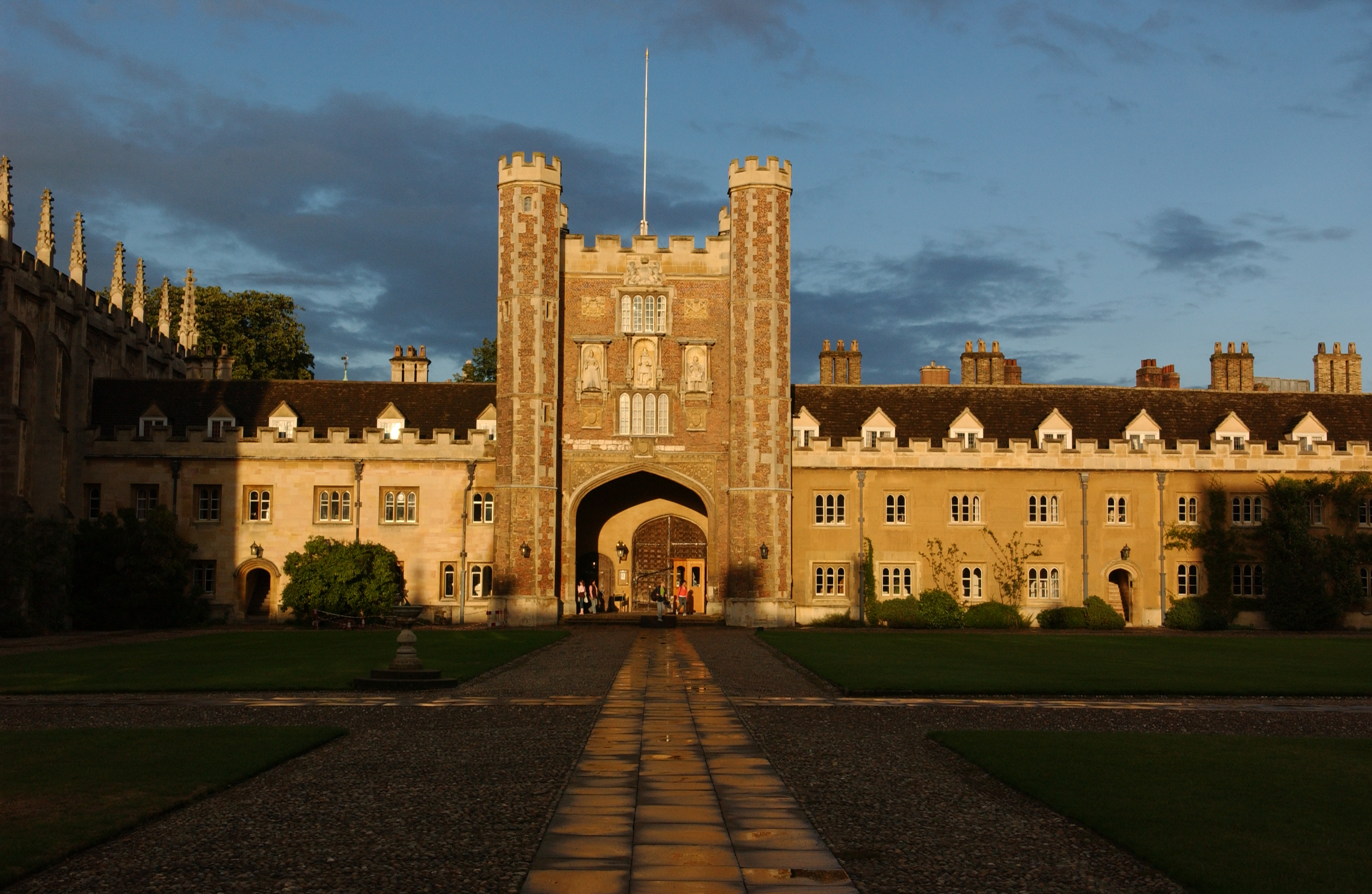 Trinity College, Cambridge. Trinity Great Court